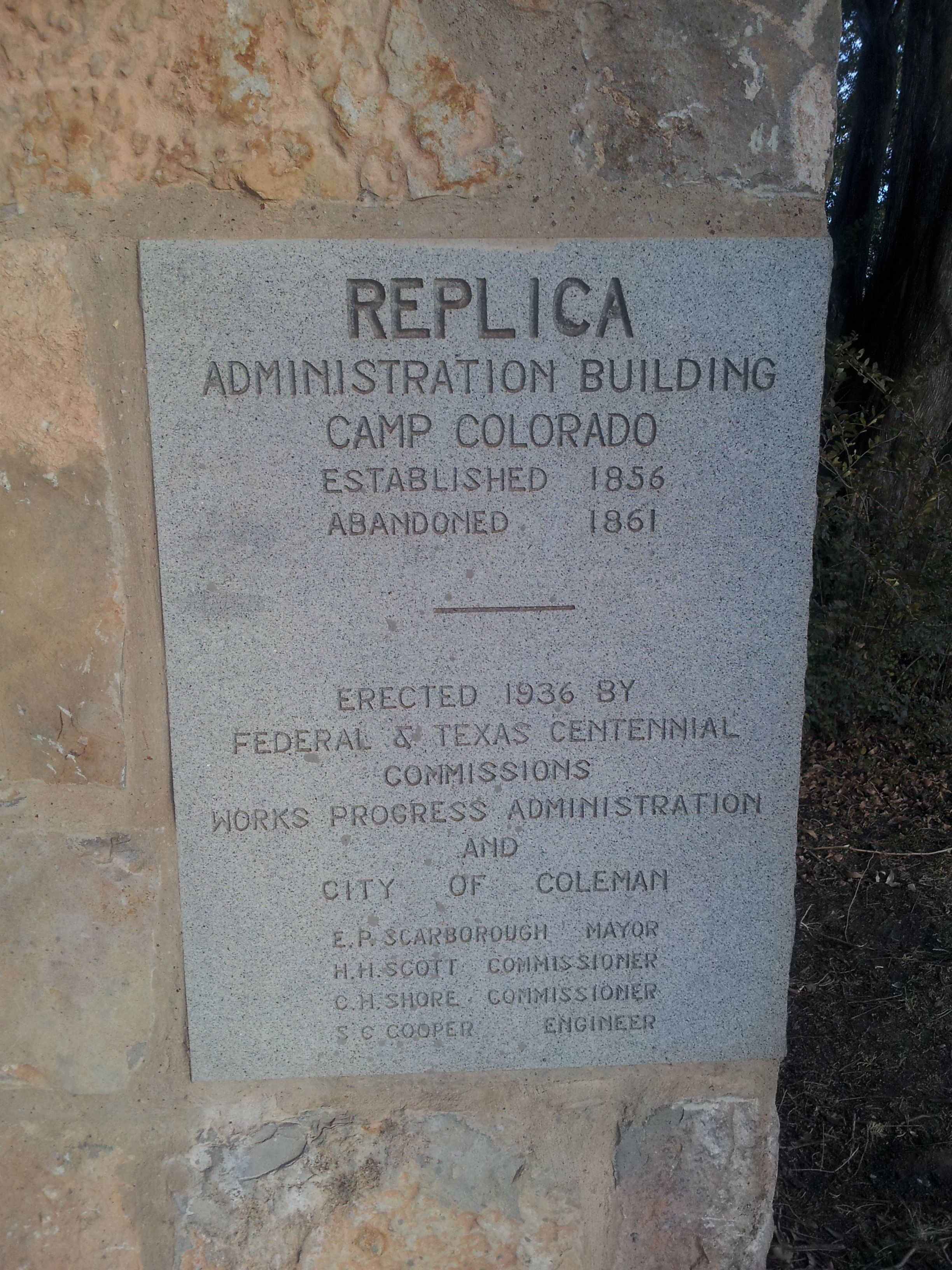 Camp Colorado Administration Building Plaque